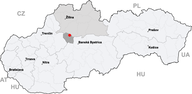 map of Slovakia, municipality of Mošovce highlighted